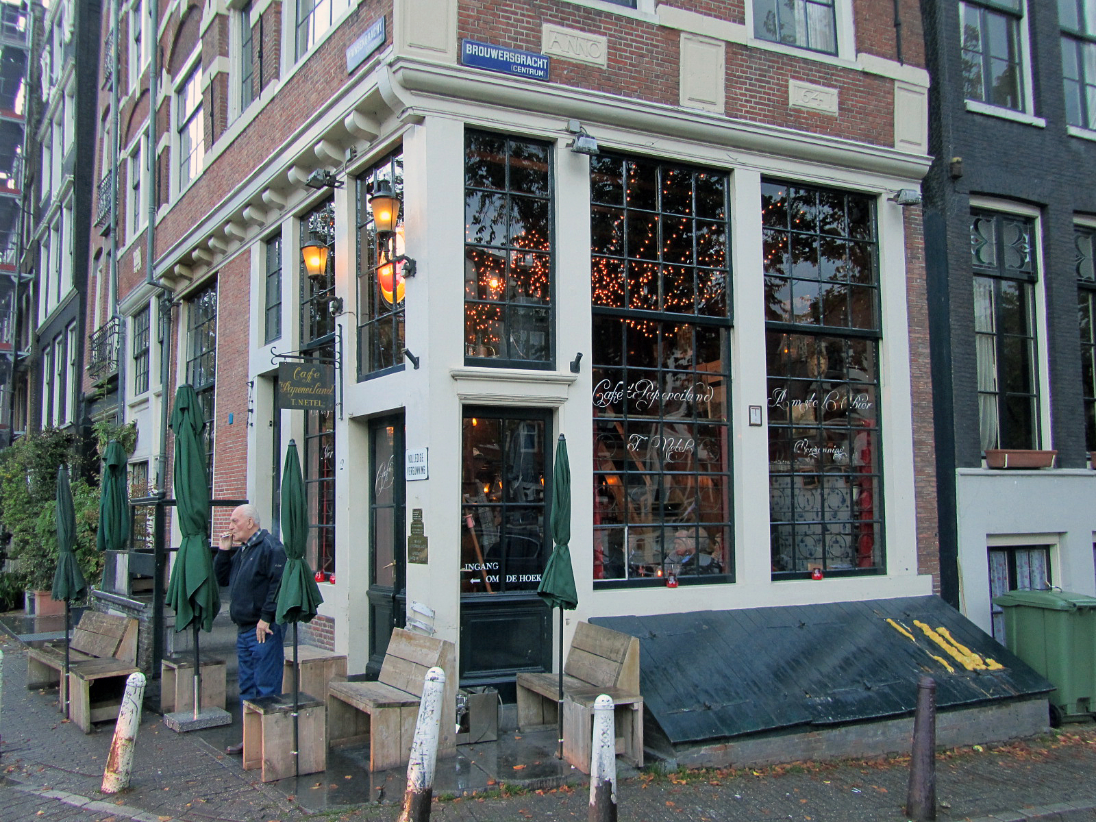 Cafe Papeneiland, a typical so called brown cafe, in a building from 1642, at the corner of Prinsengracht and Brouwersgracht in Amsterdam